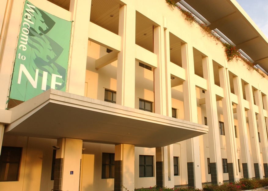 Photo of NIE Administration Building